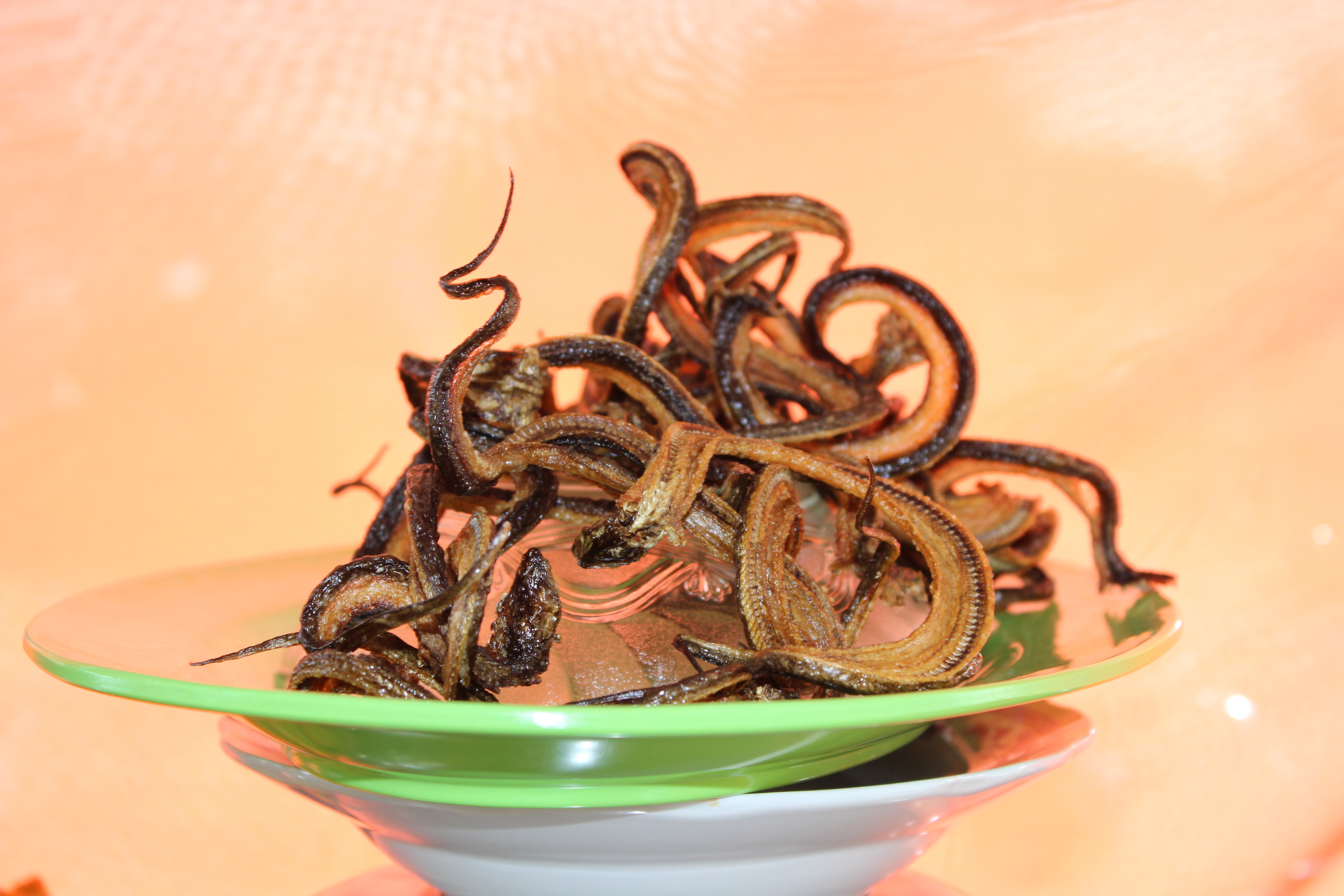 Fried eel, or baluik goreng in Minangkabau, one of Minangkabau popular cuisine